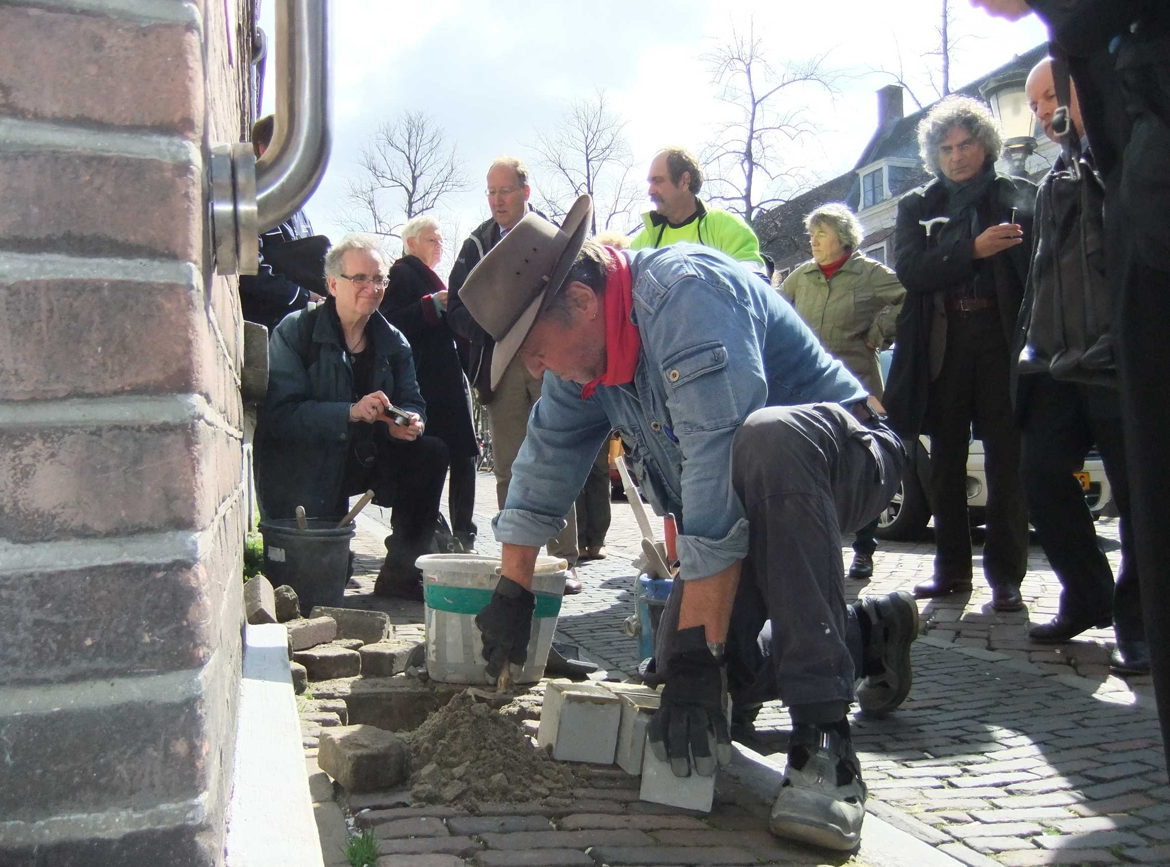 Stolpersteine Gunter Demnig, Nieuwegracht on 08-04-2010 in Utrecht/The Netherlands